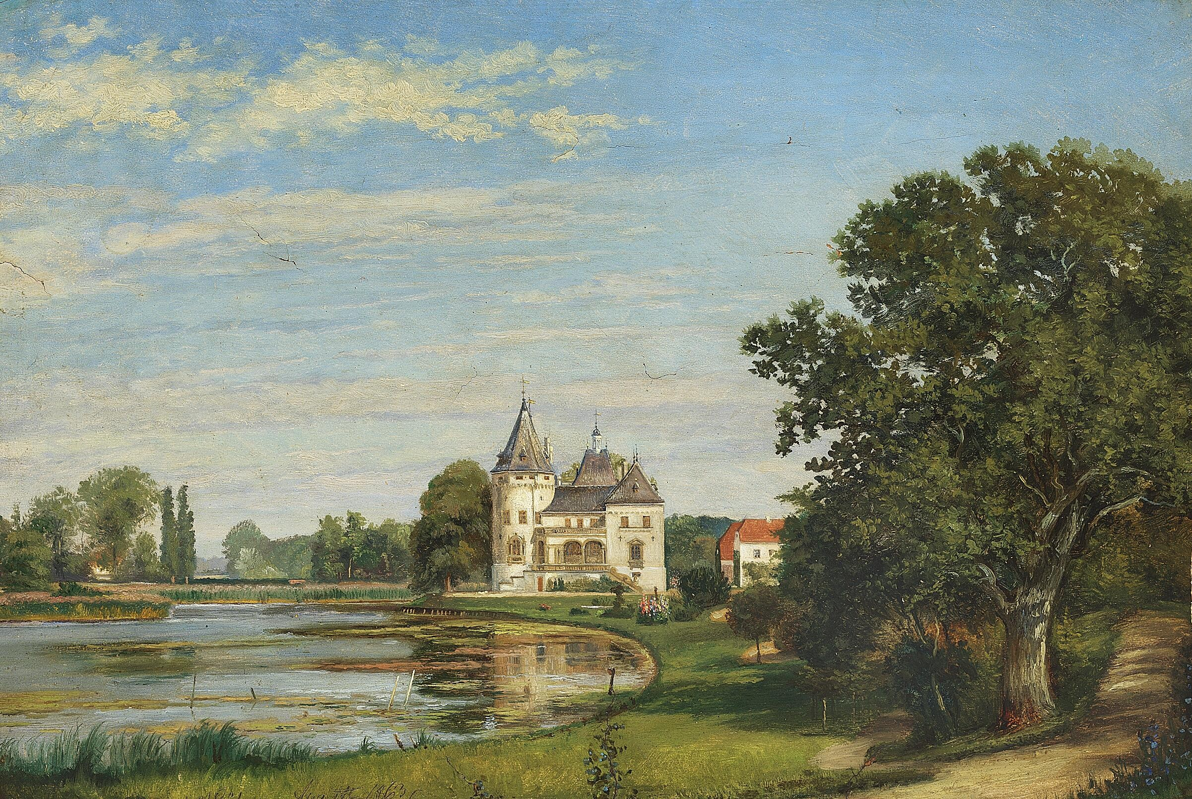 Herregården Pederstrup på Lolland , 1863